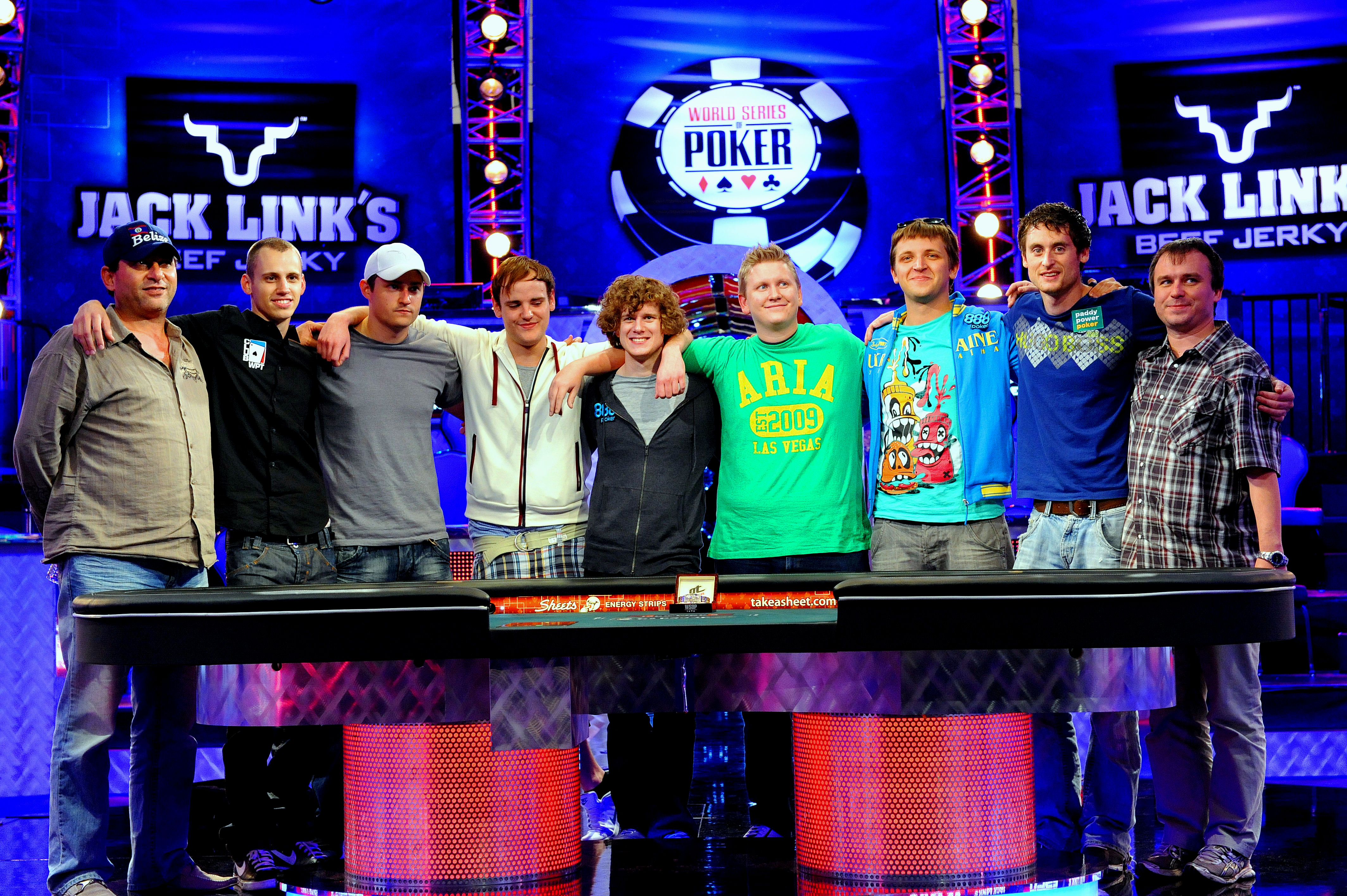 2011 WSOP November Nine: Badih Bounahra, Phil Collins, Matt Giannetti, Pius Heinz, Sam Holden, Ben Lamb, Anton Makijewskyj, Eoghan O’Dea, Martin Staszko (from left to right)